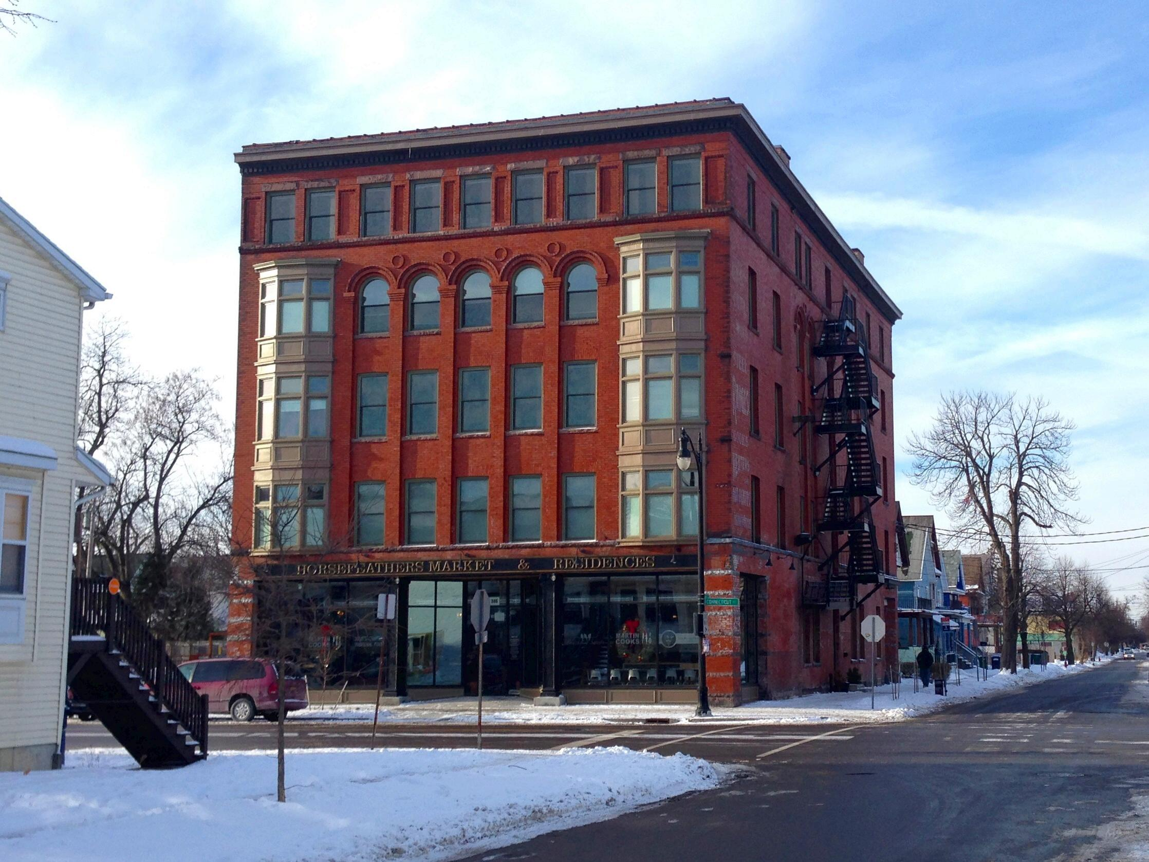 The Horsefeathers Market opened in 2013 in the five-story, Italian Renaissance-style building historically known as the Zink Block, built in 1896 for William T. Zink's furniture sales and repair store to a design by Charles Day Swan, an architect native to the West Side. After the business closed in 1932, it was used variously as a grocery store, warehouse, and (most recently) as the home of Horsefeathers Antiques, which moved to Grant-Amherst in 2008. A neighborhood landmark that's still remarkably true to its original design, the Horsefeathers Market has been renovated top-to-bottom into an energy-efficient "green" building housing specialty shops and restaurants on the ground floor and apartments on the upper floors.